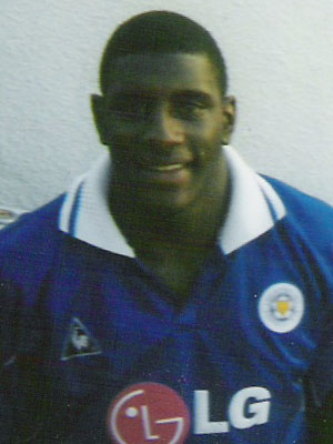 This photo was taken by myself between Leicester City Resereves Vs. Coventry City Reserves at The Lamb Ground in Tamworth, Staffordshire.